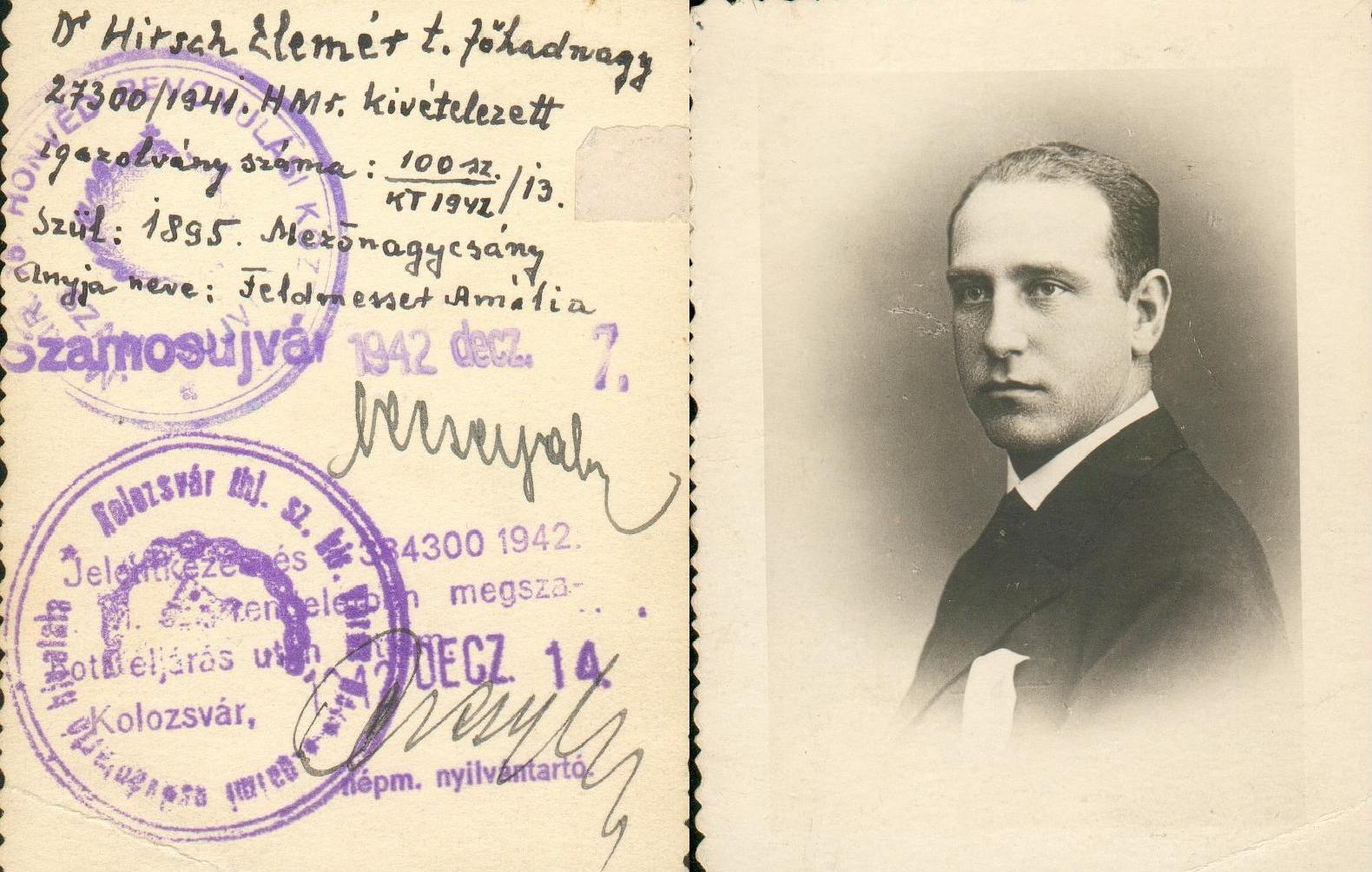 Elemér Hirsch had been exempted from the Jewish law restrictions of Hungary due his decorations earned in the WWI. Later he had to escape with his family when the deportations began because the earlier exemptions were left out of consideration by the authorities of Hungary.